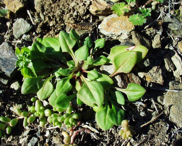 (en) Horned Dock (Rumex bucephalophorus), a photography originating of the internet site The accord of the autor, H. Brisse, is here. (fr) Rumex Tête-de-boeuf (Rumex bucephalophorus), une photographie issue du site internet L'accord de l'auteur, H. Brisse, se situe ici. (it)Rómice Capo di bue ; (de)Ochsenkopf-Ampfer ; (es)Acedera de lagarto